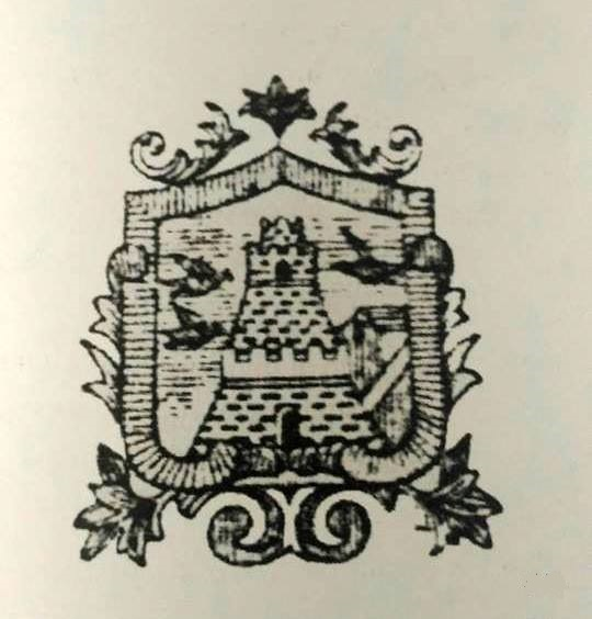 stemma castellammare adriatico